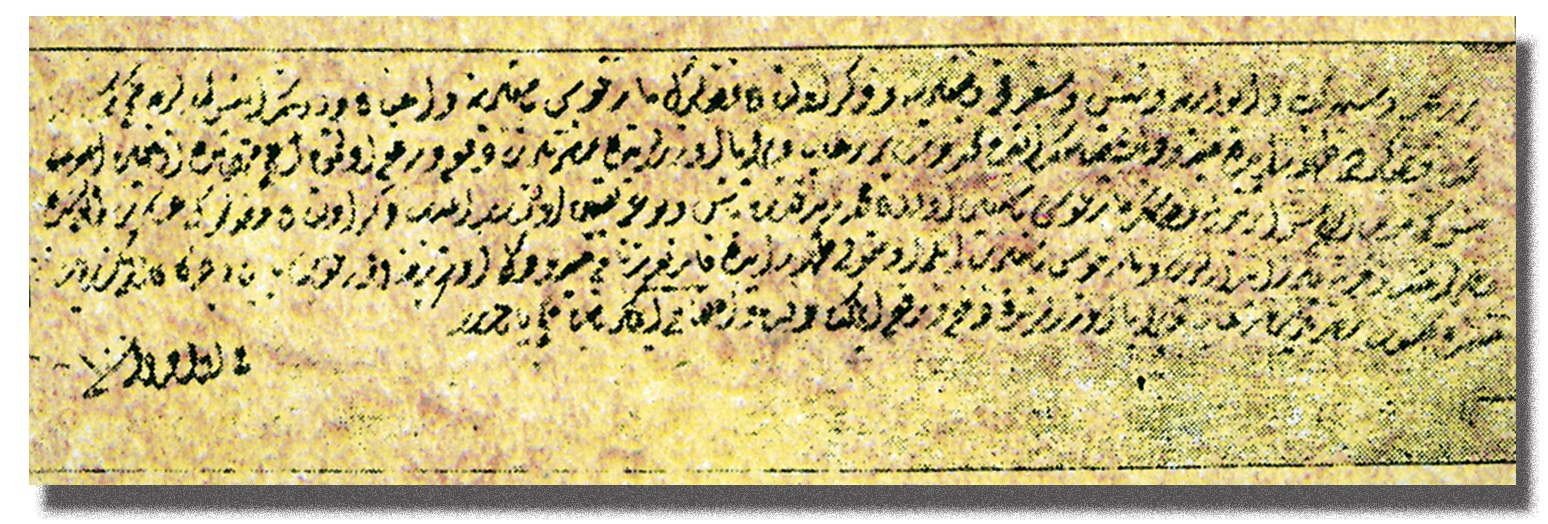 Order for killing Karposh This media file is produced by Wikipedian in Residence in Category:Wikipedian in Residence at DARM in 2016.